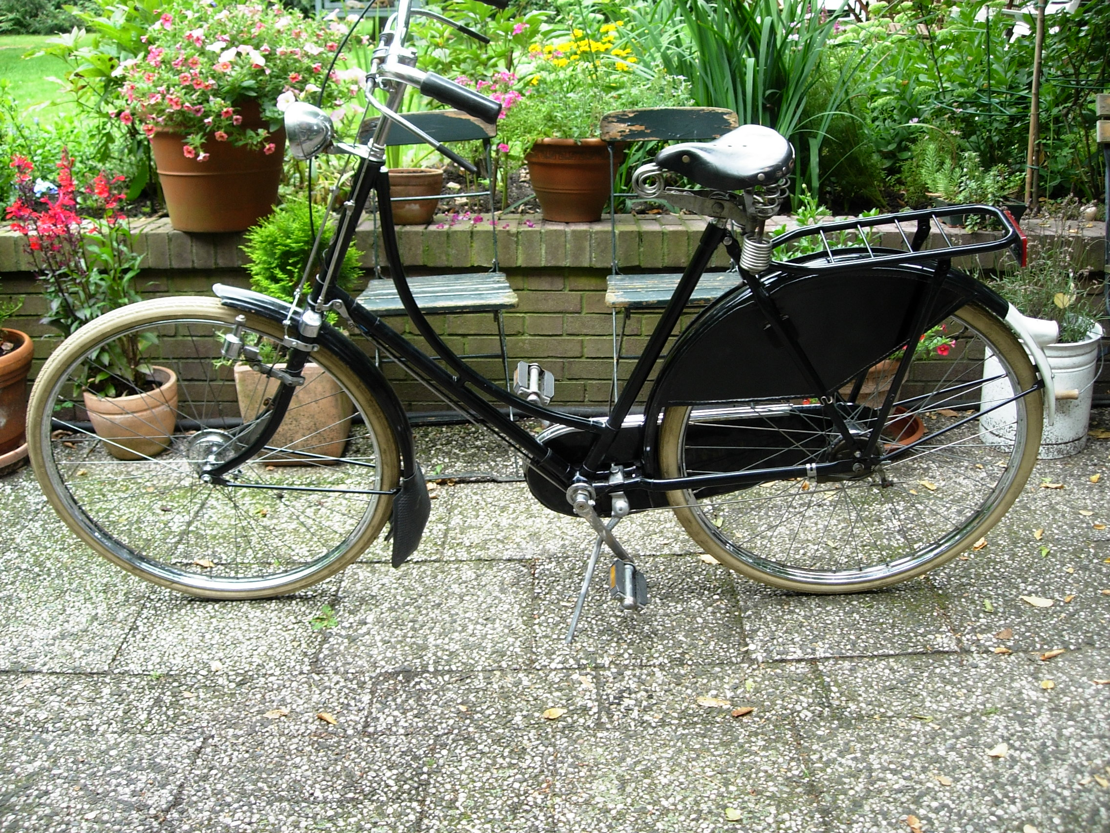 Gazelle luxurious lady's bike from 1954. Saddle Primus 214 Ladies made by Lepper.